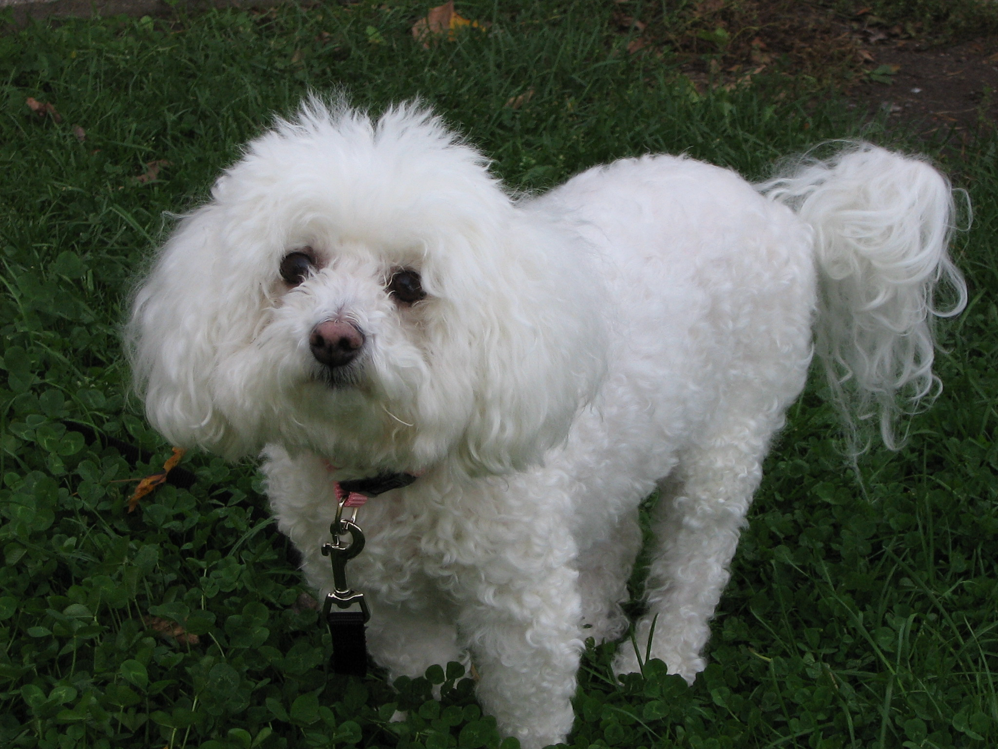 Photograph of a Bichon Frisé, wearing a collar and leash; taken outdoors on an October afternoon.